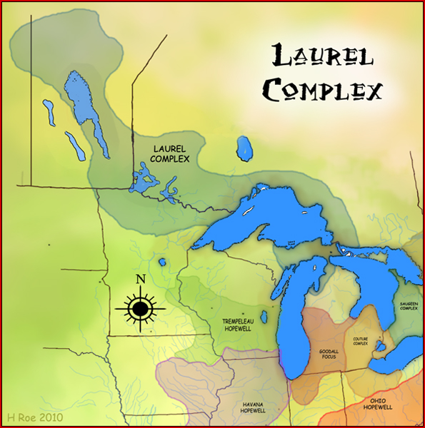 Laurel Complex were Native Americans from the Woodland period.